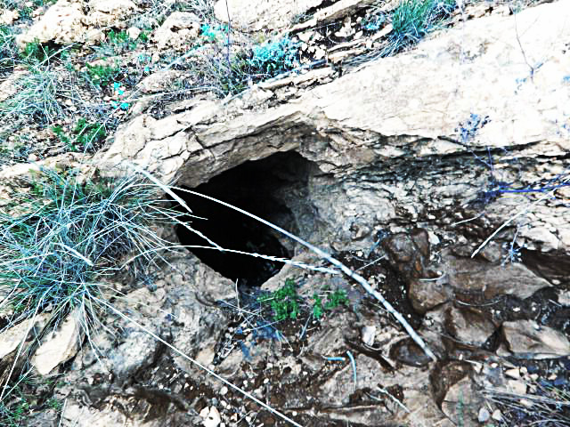 Lyaski vruh Rila BG